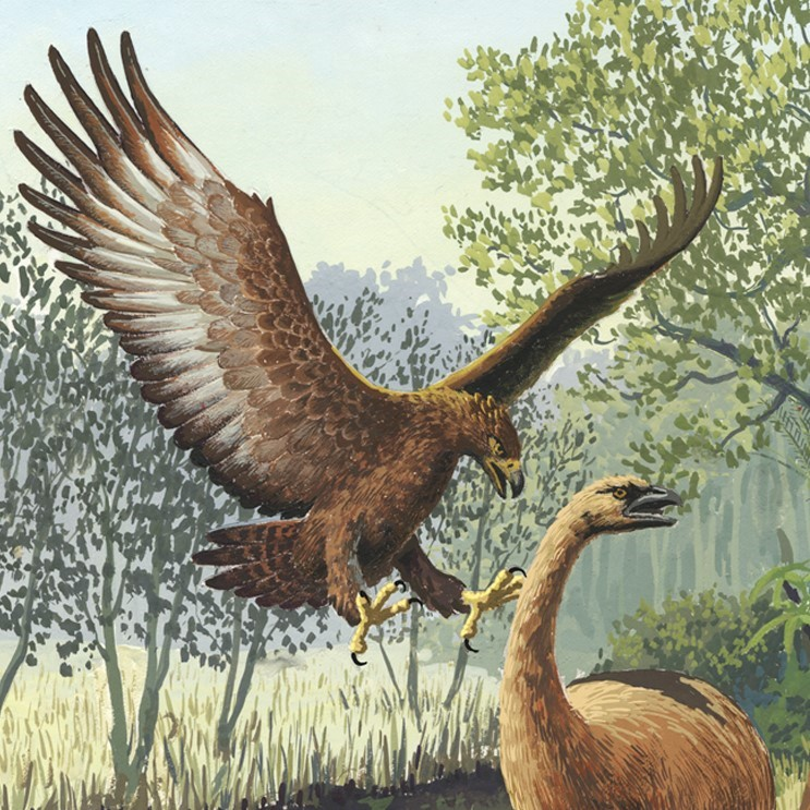 Giant Haast's eagle attacking New Zealand moa